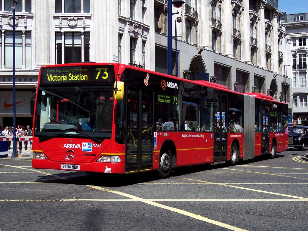 Articulated standard model Mercedes-Benz Citaro G of Arriva London on Transport for London route 73 at Oxford Circus.